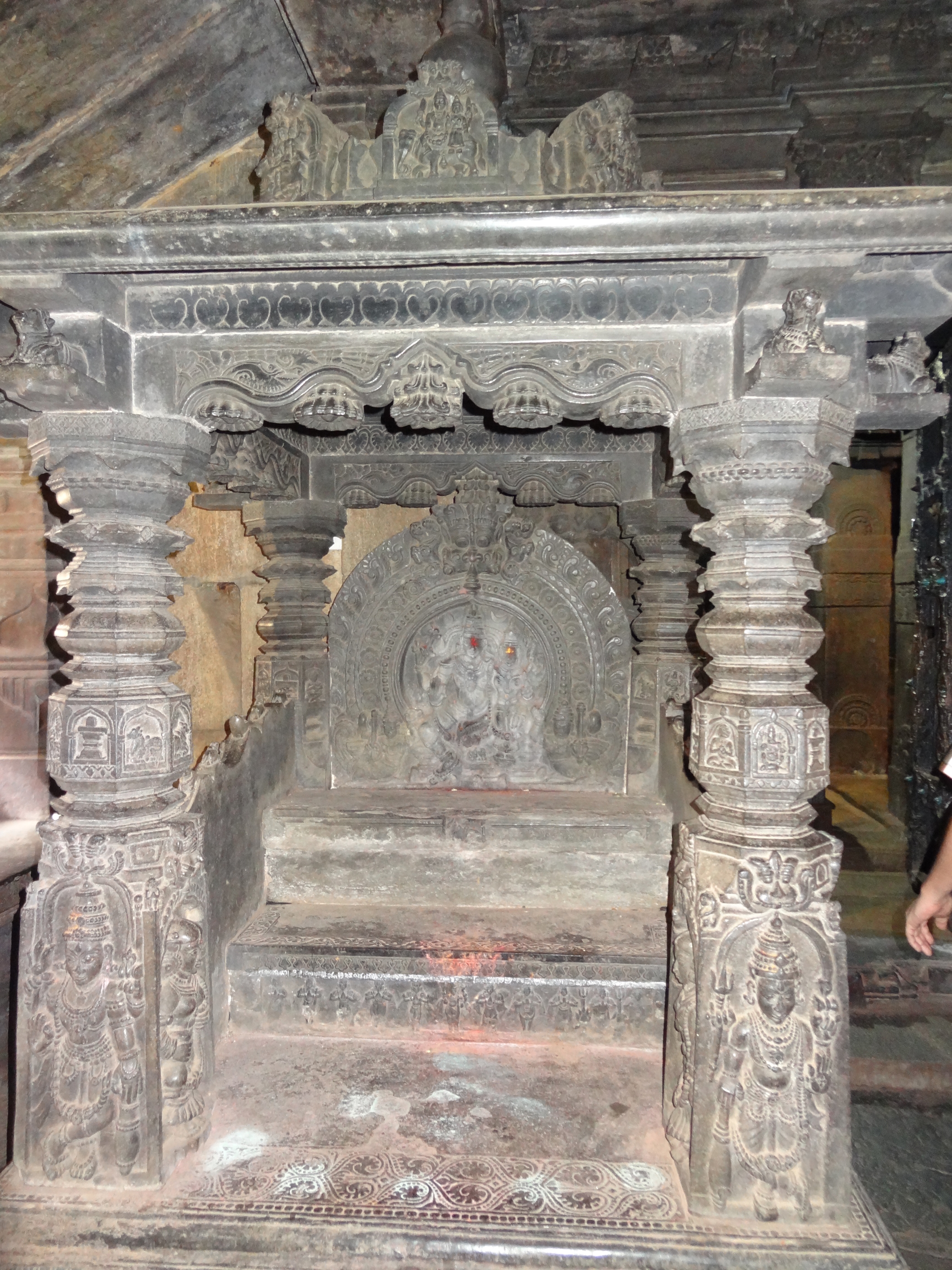 Fine temple with carvings